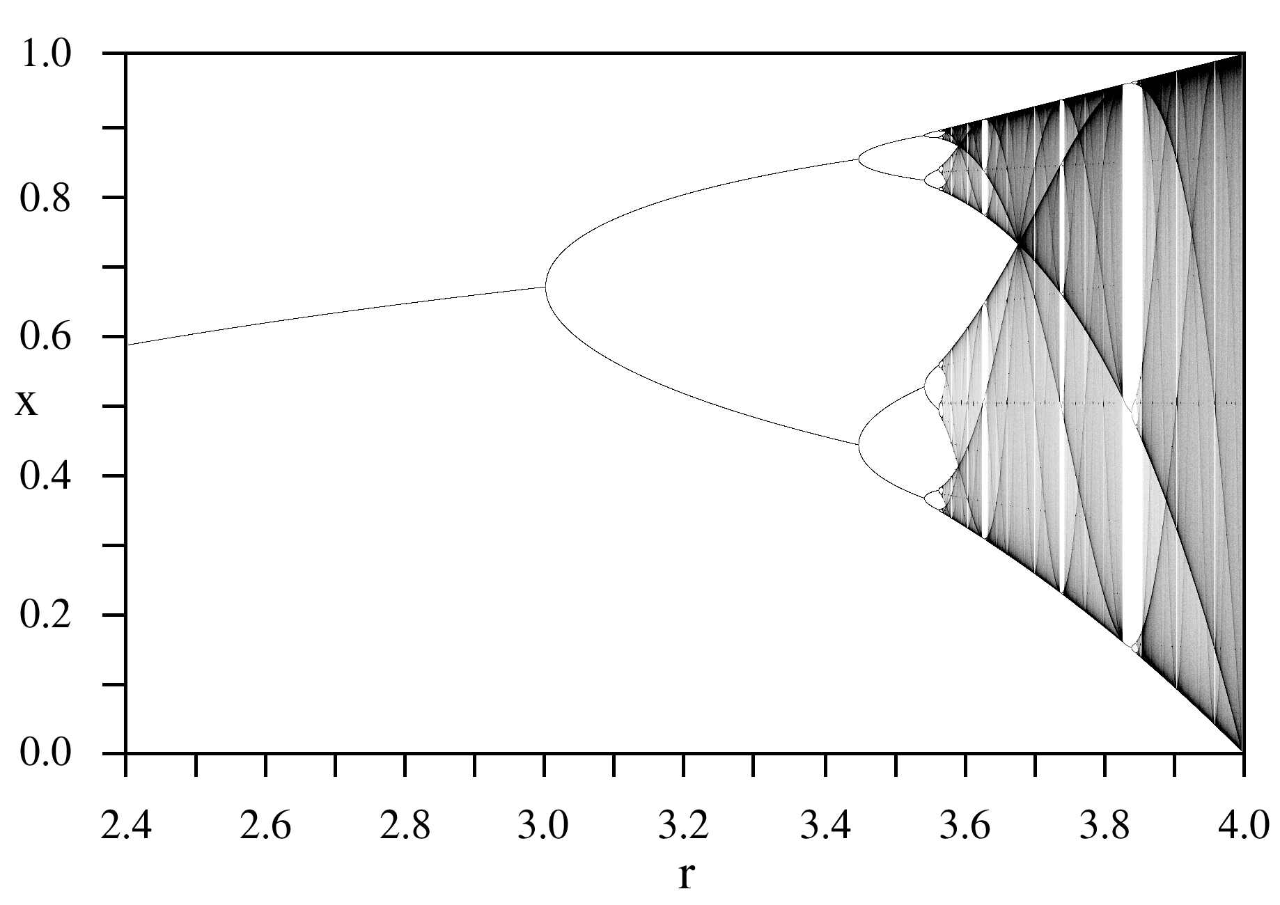 A bifurcation diagram for the Logistic map: x n + 1 = r x n ( 1 − x n ) {\displaystyle x_{n+1}=rx_{n}(1-x_{n})\,} The horizontal axis is the r parameter, the vertical axis is the x variable. The image was created by forming a 1601 x 1001 array representing increments of 0.001 in r and x. A starting value of x=0.25 was used, and the map was iterated 1000 times in order to stabilize the values of x. 100,000 x -values were then calculated for each value of r and for each x value, the corresponding (x,r) pixel in the image was incremented by one. All values in a column (corresponding to a particular value of r) were then multiplied by the number of non-zero pixels in that column, in order to even out the intensities. Values above 250,000 were set to 250,000, and then the entire image was normalized to 0-255. Finally, pixels for values of r below 3.57 were darkened to increase visibility.